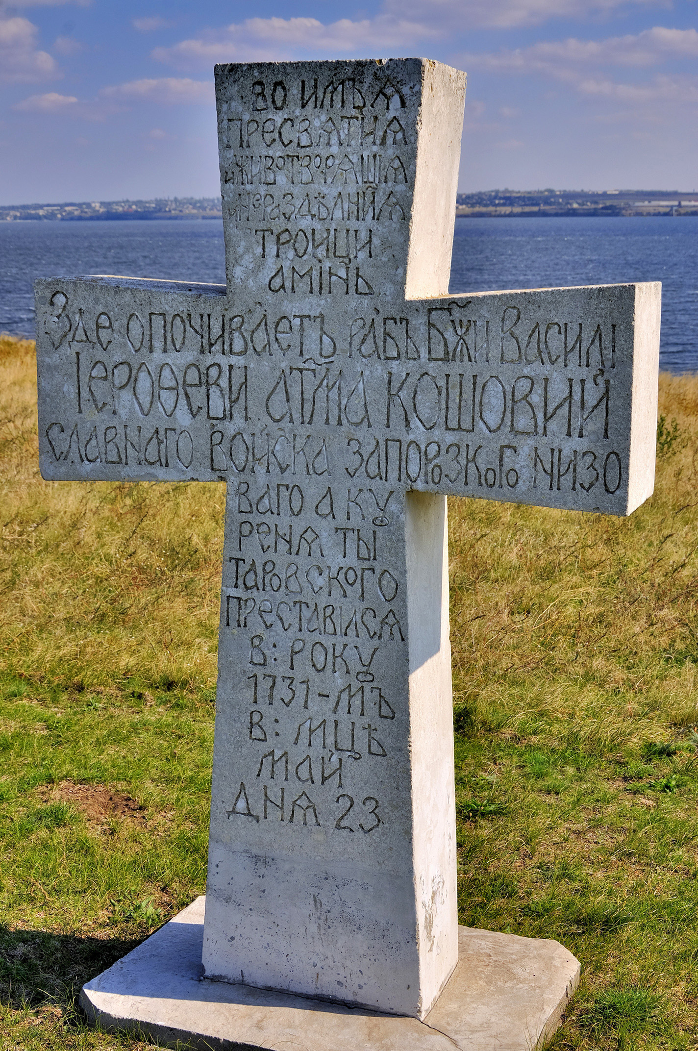 The territory of the former Kamianska Sich.